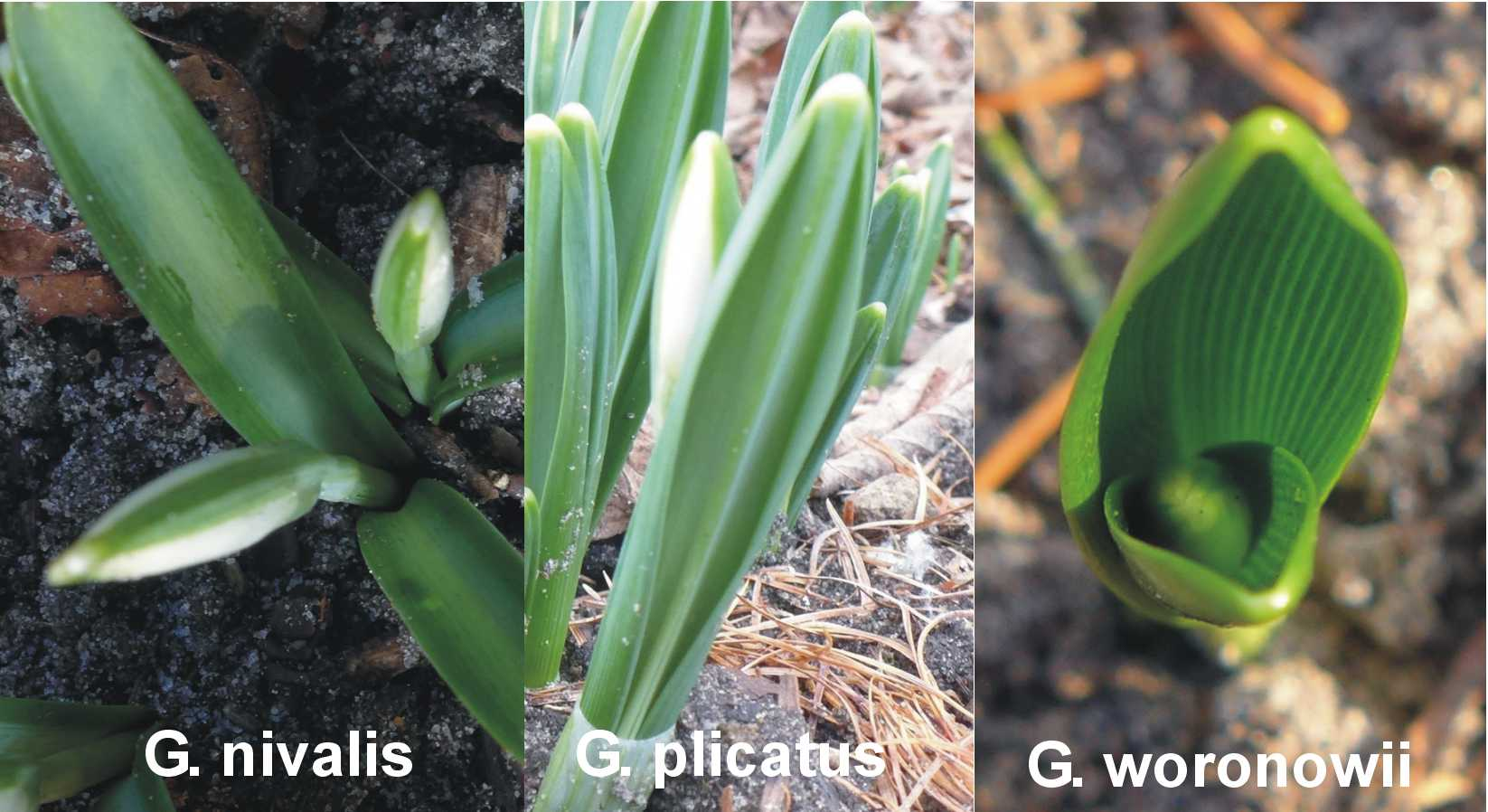 Three types of vernation in the genus Galanthus - aplanate, explicativ, convolute.